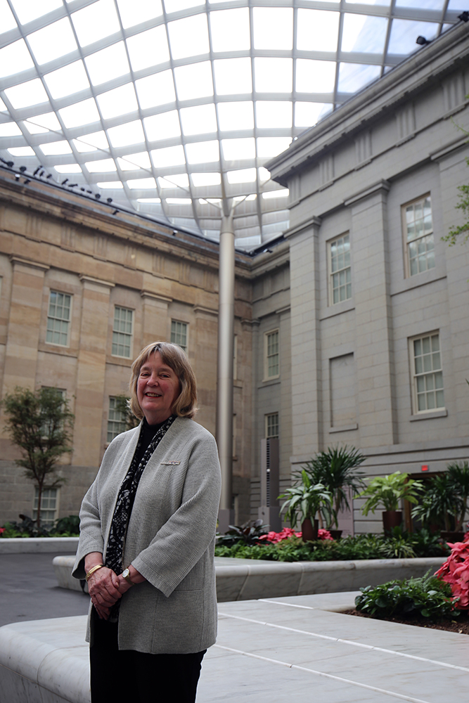 Elizabeth Broun, Director of the Smithsonian American Art Museum from 1989 to 2016, in the museum's Kogod Courtyard